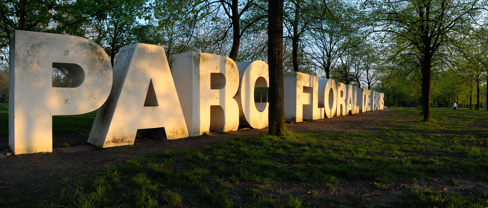 Main entrance of the Floral Park of Paris, France